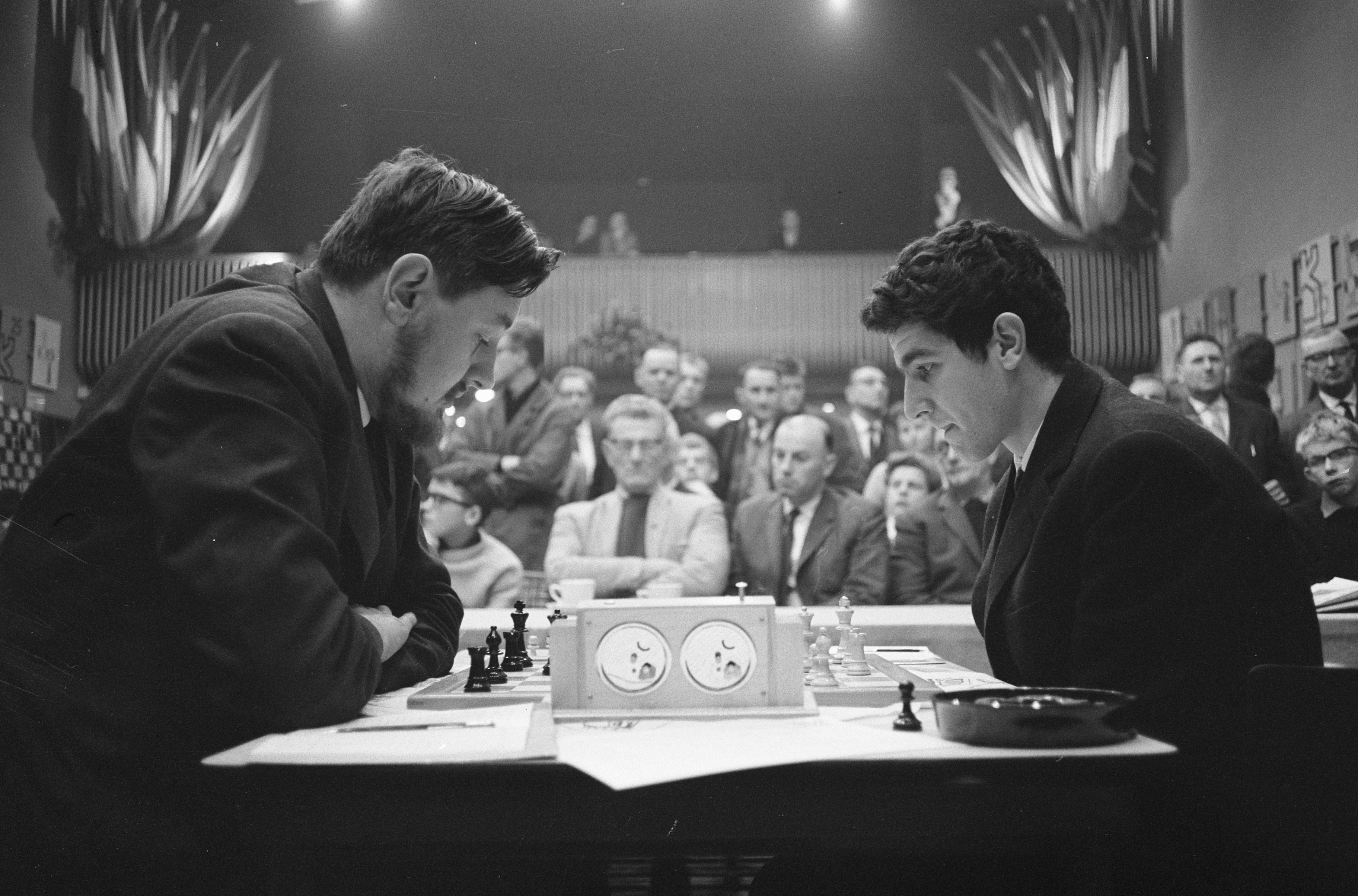 Bruno Parma vs. Jan Hein Donner at Hoogoven